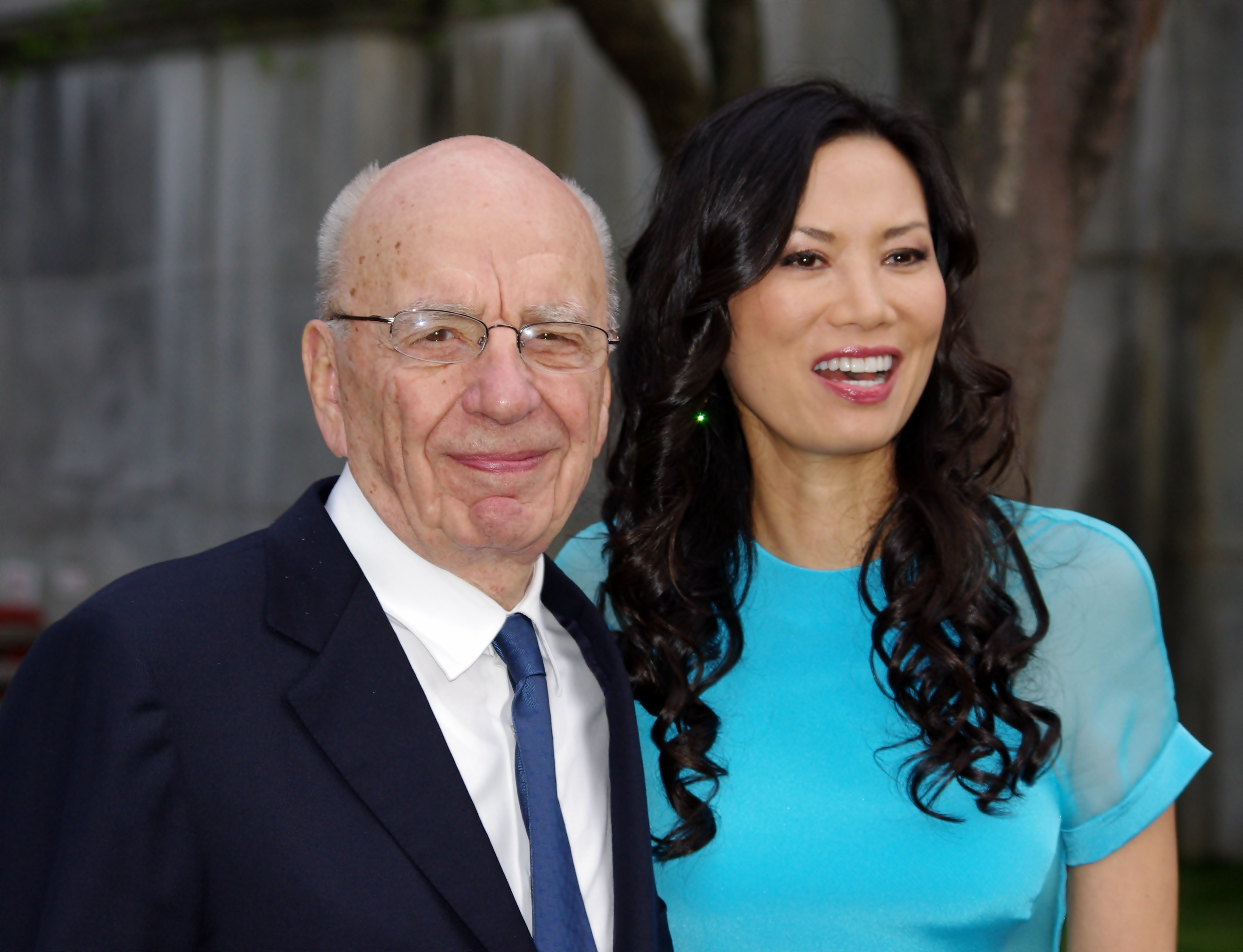 Rupert Murdoch and Wendi Murdoch at the Vanity Fair party celebrating the 10th anniversary of the Tribeca Film Festival.